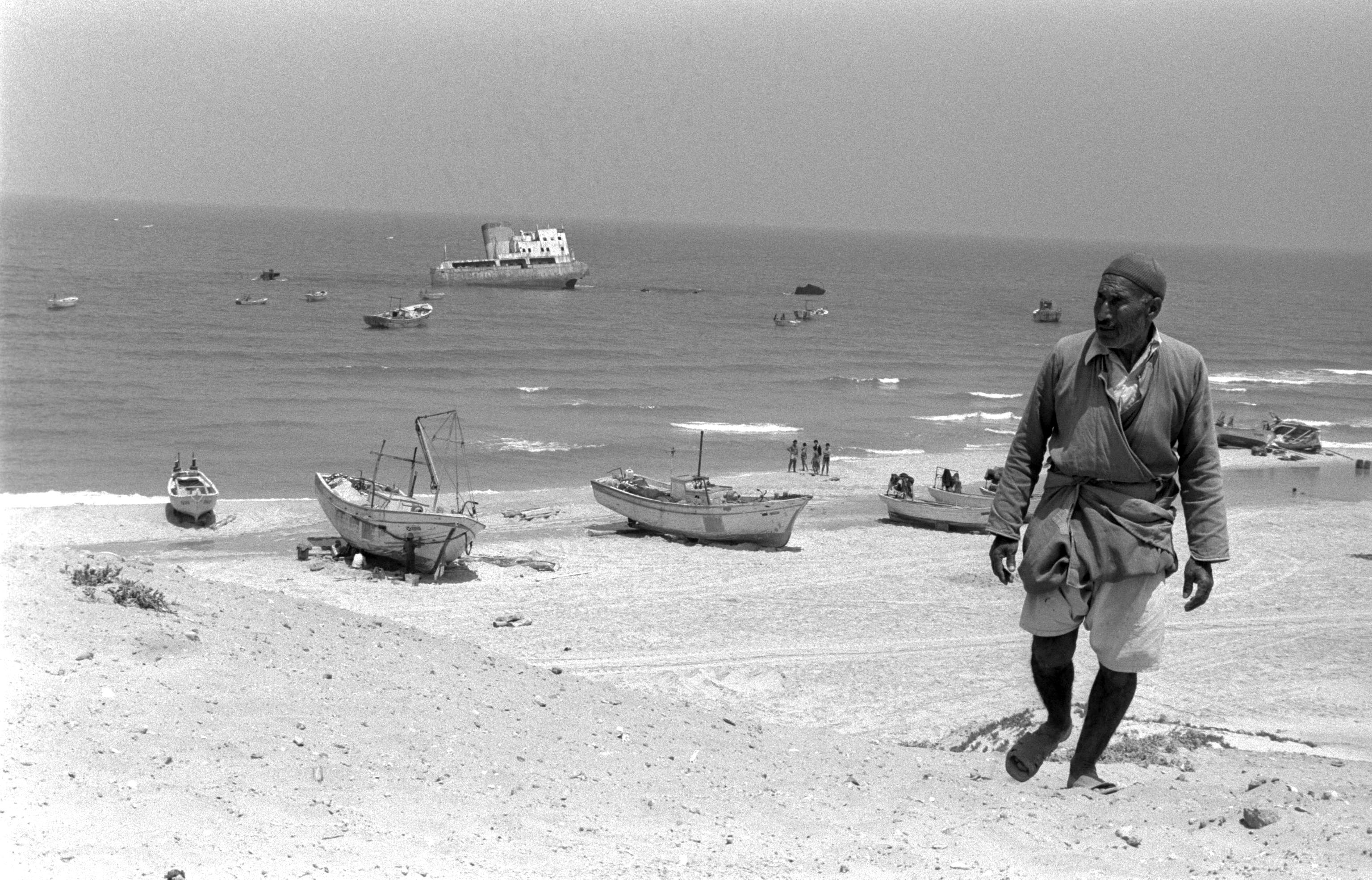 The port of gaza (11/06/1980) מראה כללי של נמל עזה. Photo: Moshe Milner (1946–) Alternative names Miylner, Moše; Milner, Mosheh; Moshé Milner; Milner, M.; Mîlner, Moše; Miylner, MošehDescriptionIsraeli photographerצלם ישראליDate of birth 1946 Location of birth Germany Authority control : Q28750411 VIAF: 100999744 ISNI: 0000 0001 0804 0507 LCCN: n82072104 GND: 115699732 BNF: 15548788n WorldCat creator QS:P170,Q28750411 .